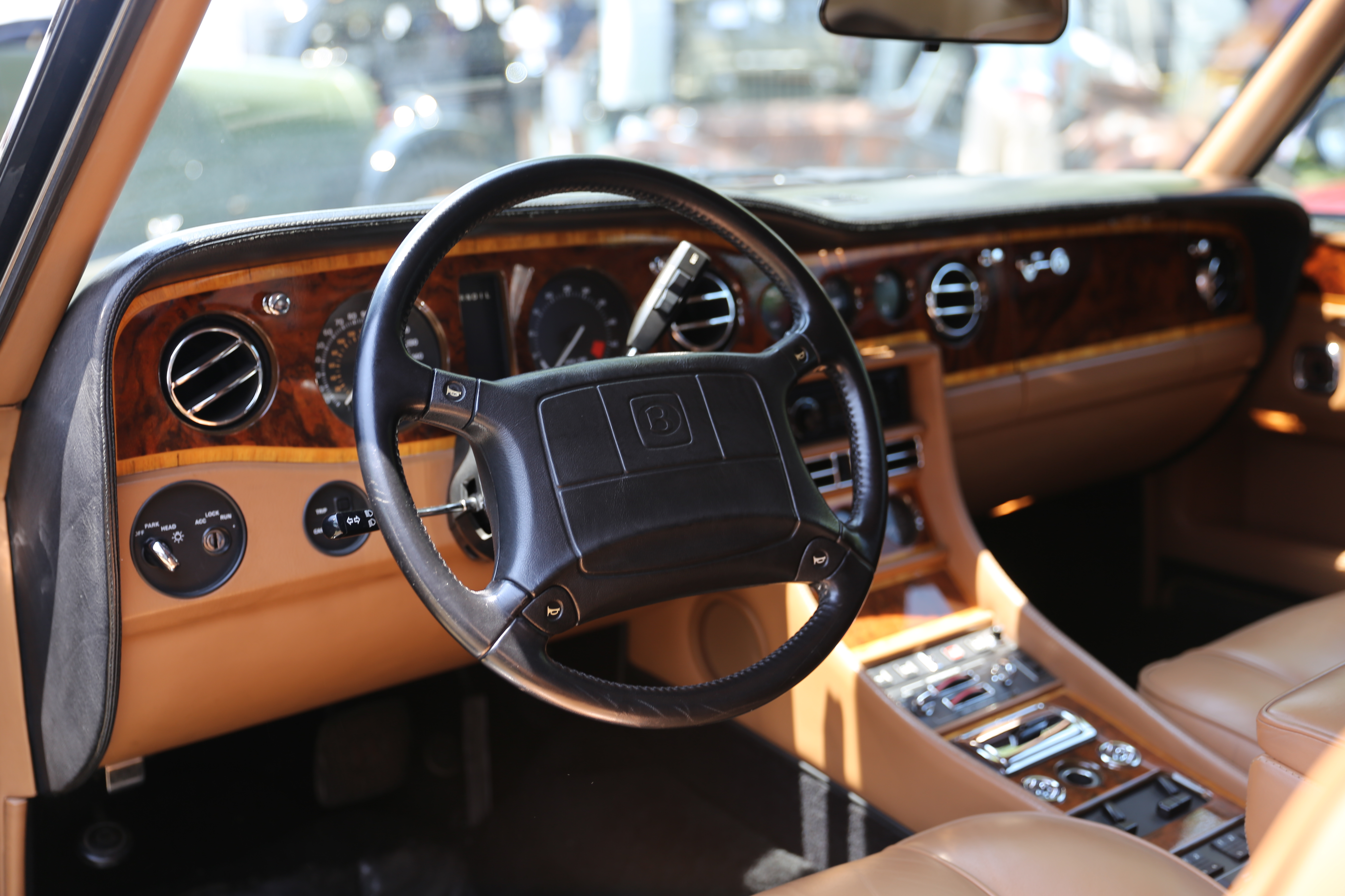 Dashboard of 1990 Bentley Continental (s/n SCBZD02DXLCX30161) at the Bonhams auction attached to the 2013 Greenwich Concours d'Elegance.